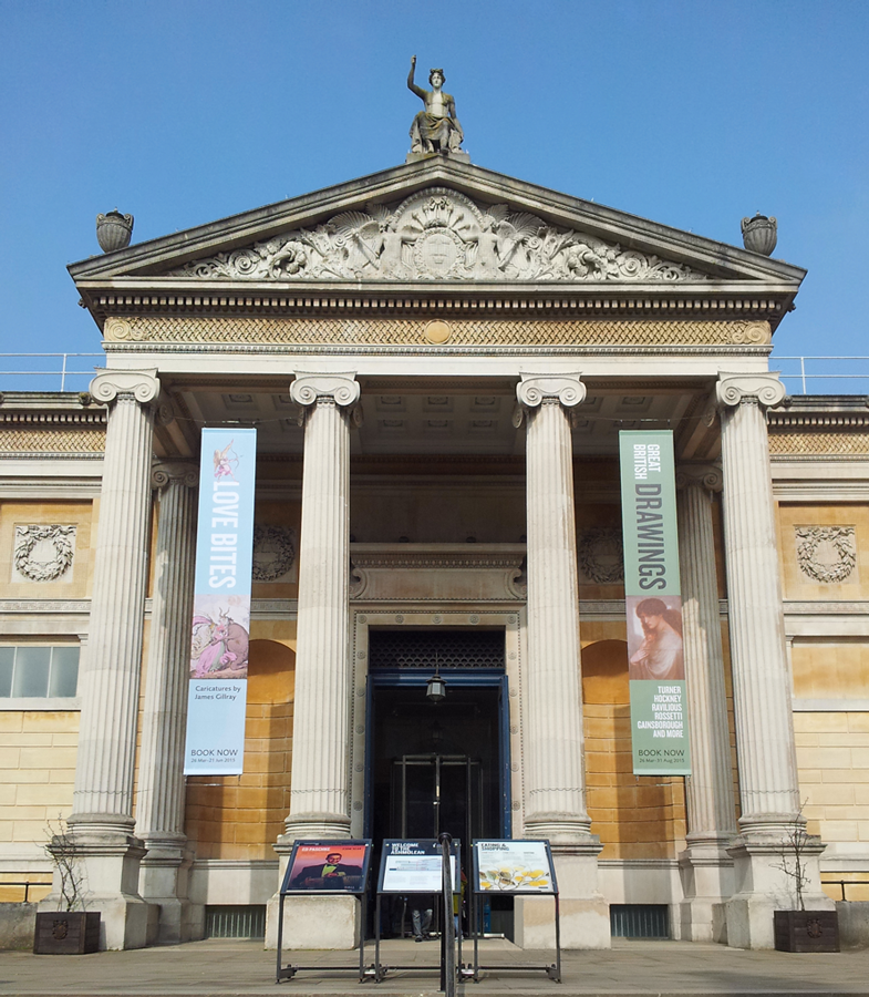 Ashmolean Museum Entrance and Forecourt 2015